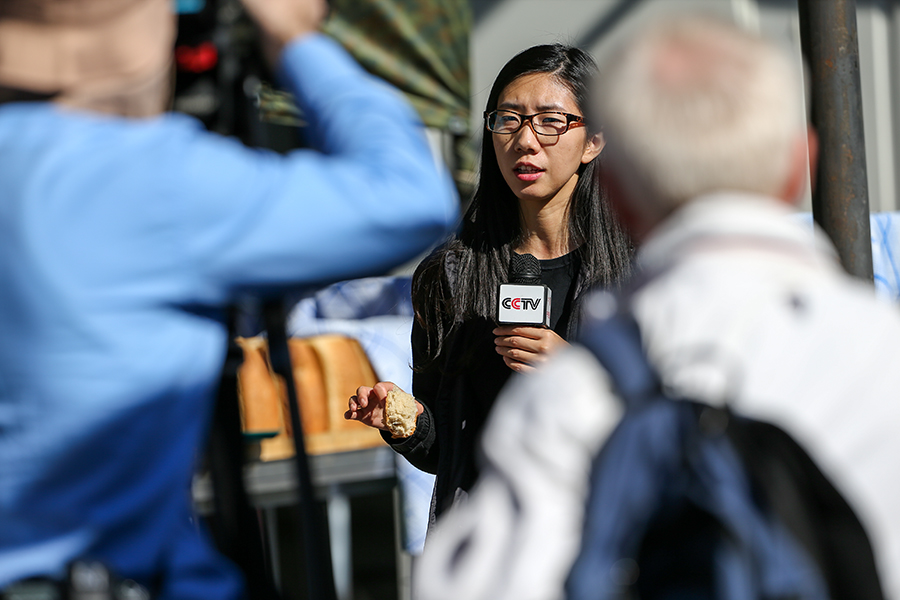 Press tour for Russian and international media representatives at the Russian airbase in Latakia, Syria